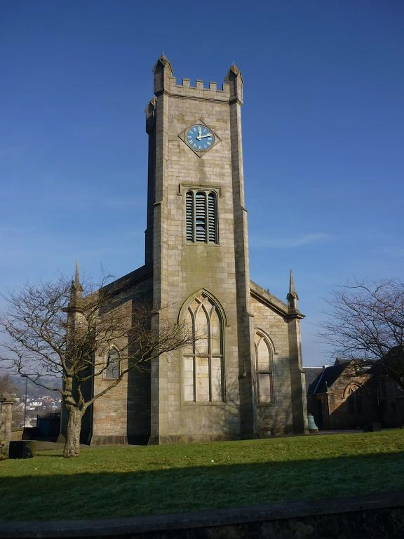 Kilsyth Burns & Old Parish Church